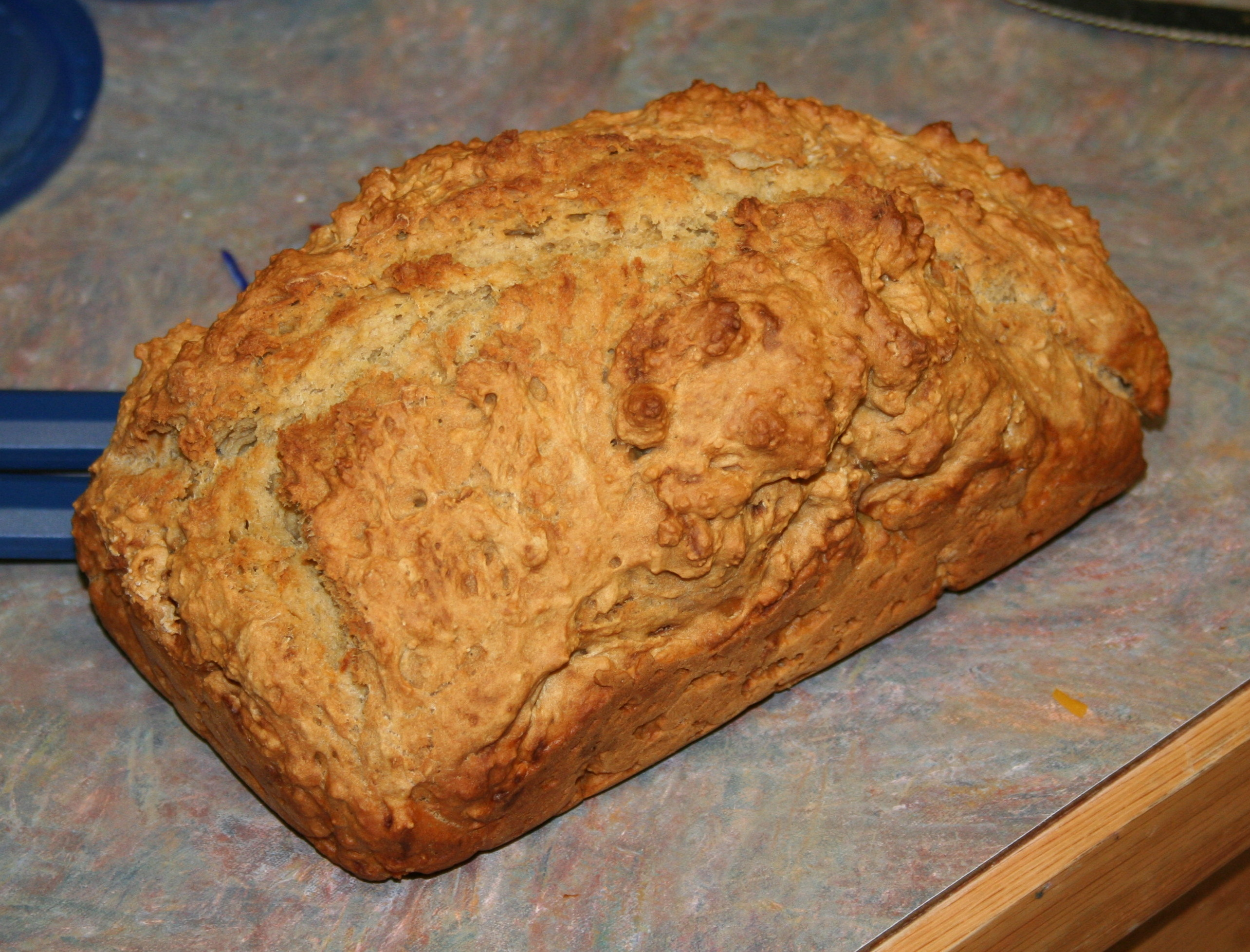 A loaf of Beer Bread. Ingredients: 1 12oz bottle beer 3 cups flour 1/3 cup sugar Bake at 375 for 30 minutes, give or take.